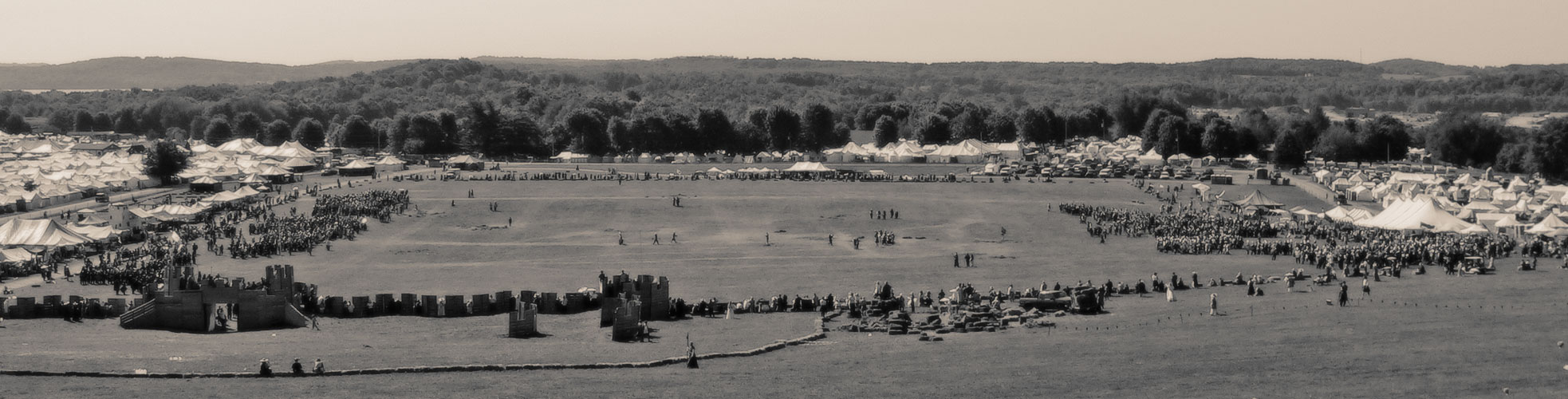 Main Field Battle at the Pennsic War